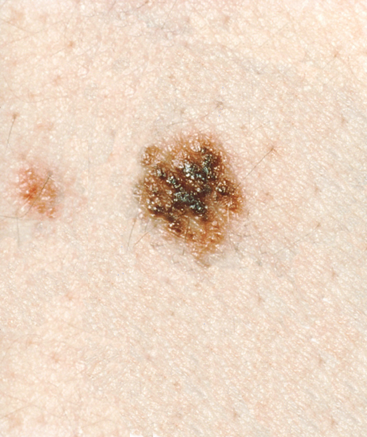 Title Dysplastic Nevi Description This lesion has a dark brown, "pebbly" elevated surface against a lighter tan, macular background. The irregular, indistinct margin of the nevus helps to distinguish it from the small congenital-pattern nevus, which some dysplastic nevi closely resemble clinically. Its distinctive morphology, not its size (6 by 6 mm), identifies it as a dysplastic nevus. For additional resource, see the following web site: Topics/Categories Anatomy -- Skin Cancer Types -- Skin Cancer Cells or Tissue -- Abnormal Cells or Tissue Type Color, Photo Source National Cancer Institute